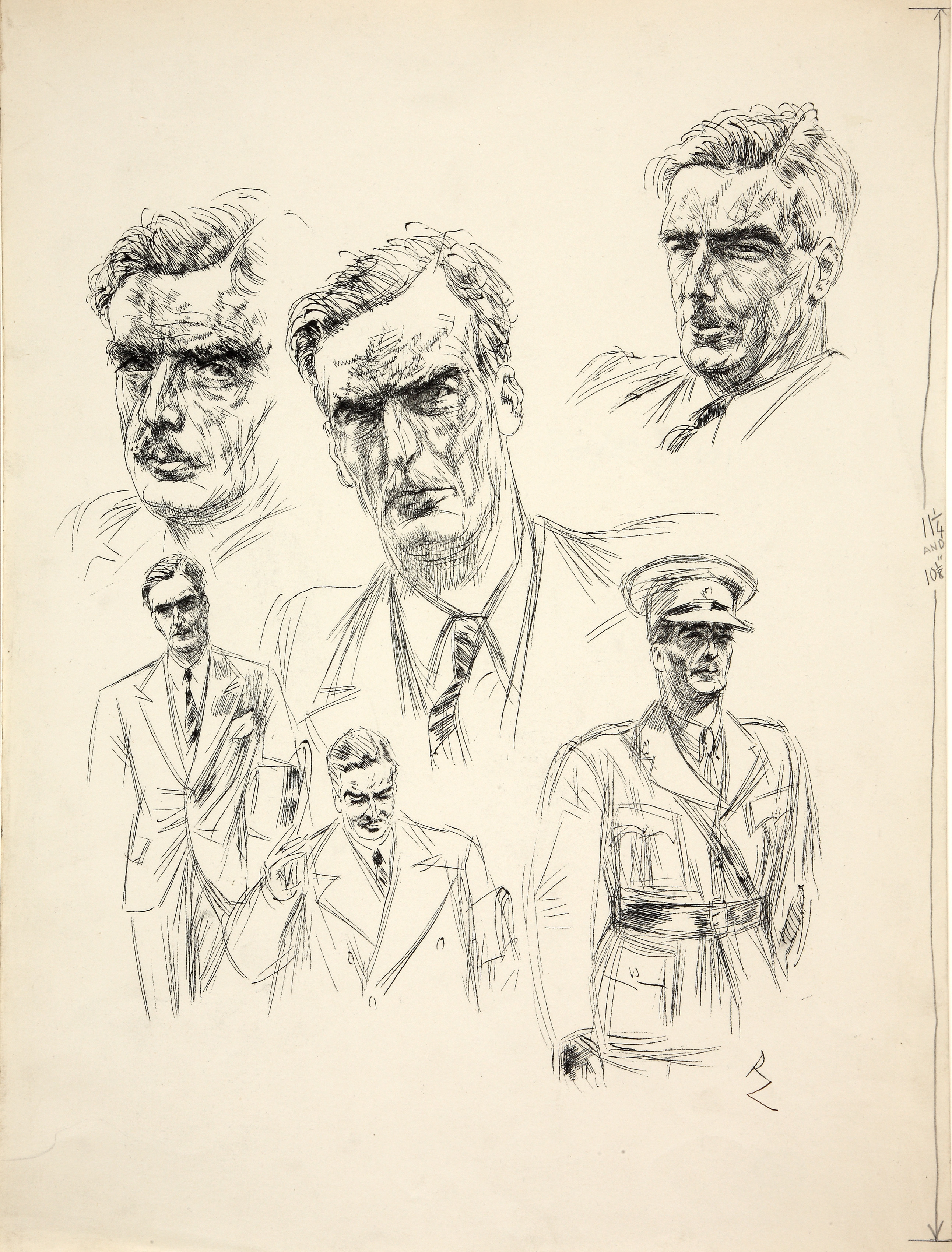 Anthony Eden Depicted person: Anthony Eden, 1st Earl of Avon